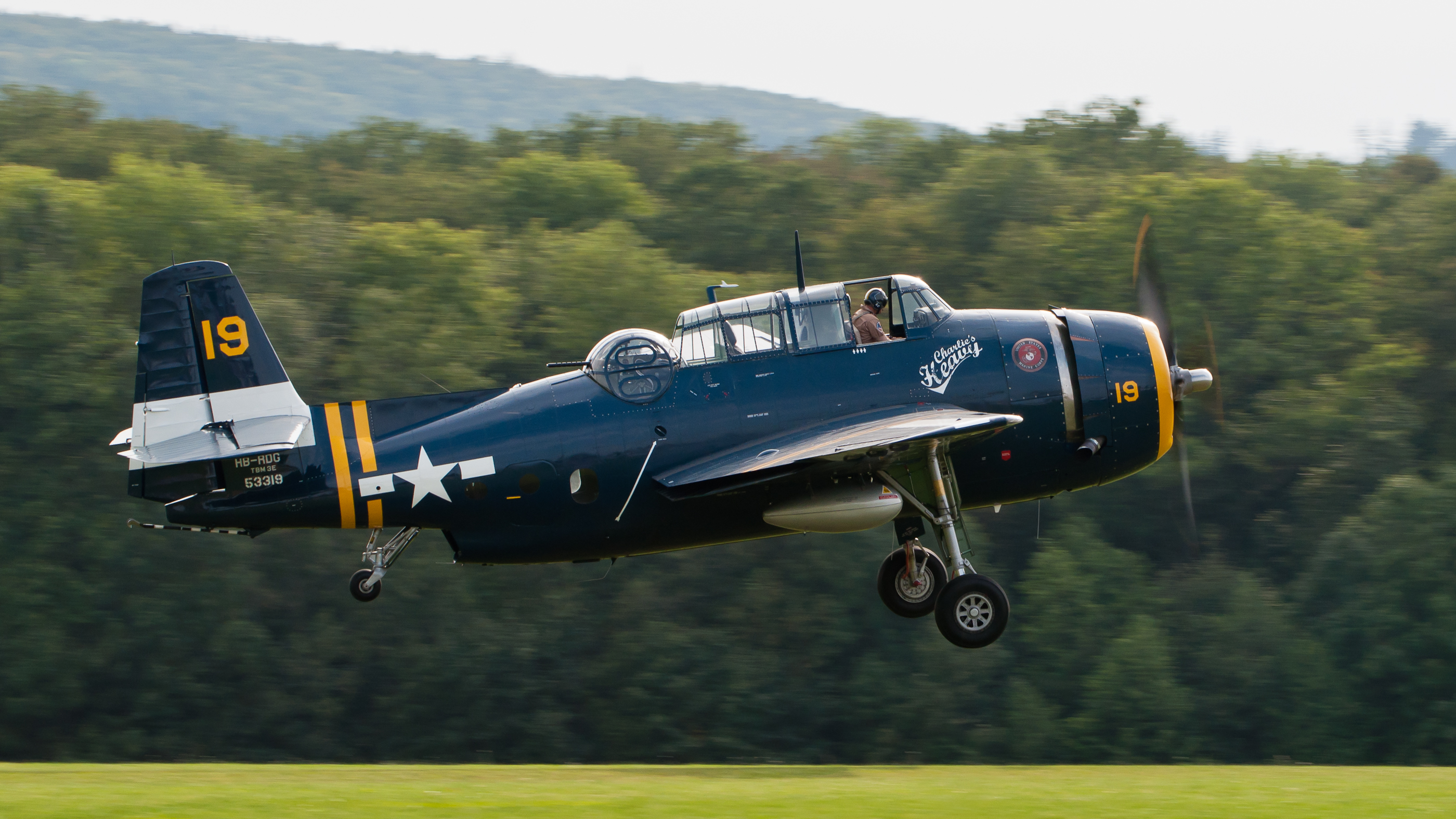 Grumman (General Motors) TBM-3E Avenger (reg. HB-RDG (19/53319), cn 3381, built in 1945). Engine: Wright Double Cyclone R-2600-20.